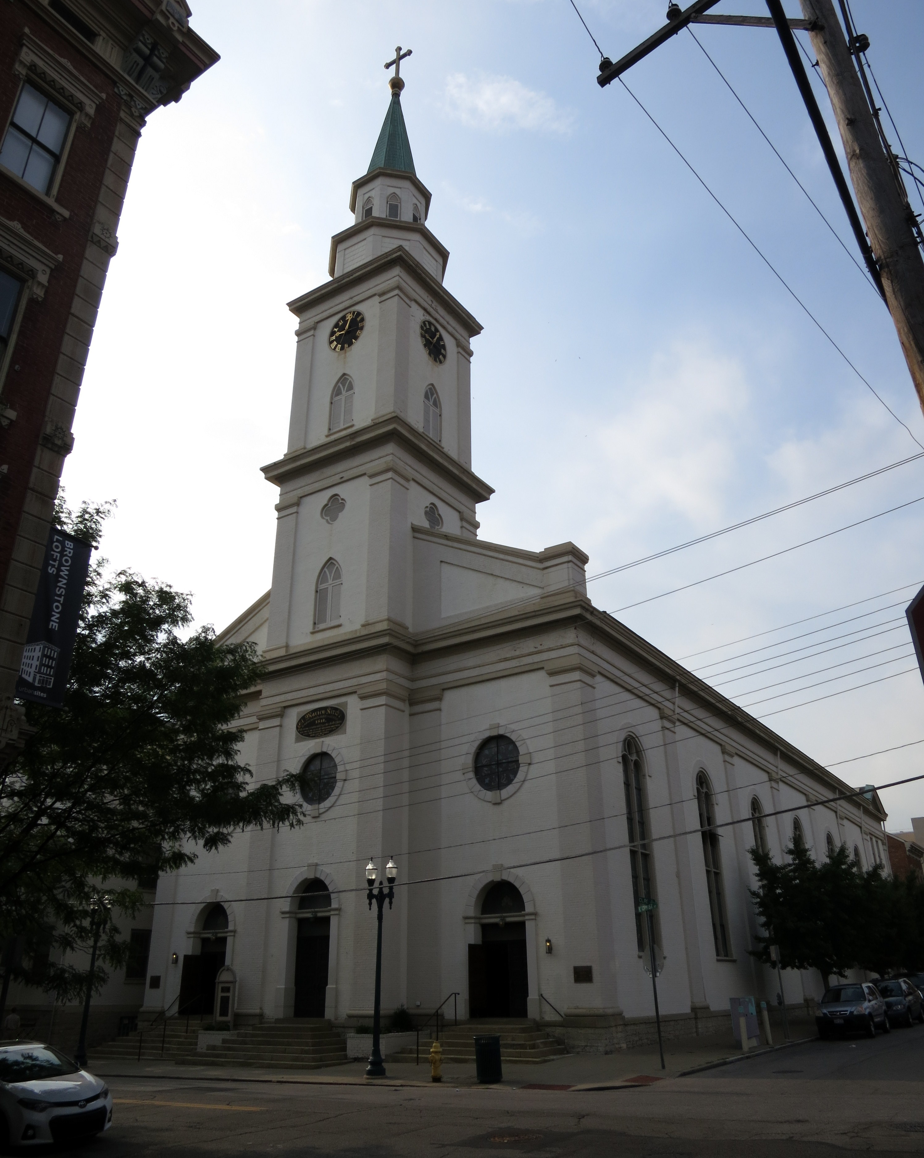 Old Saint Mary's Church (Cincinnati, Ohio) - exterior